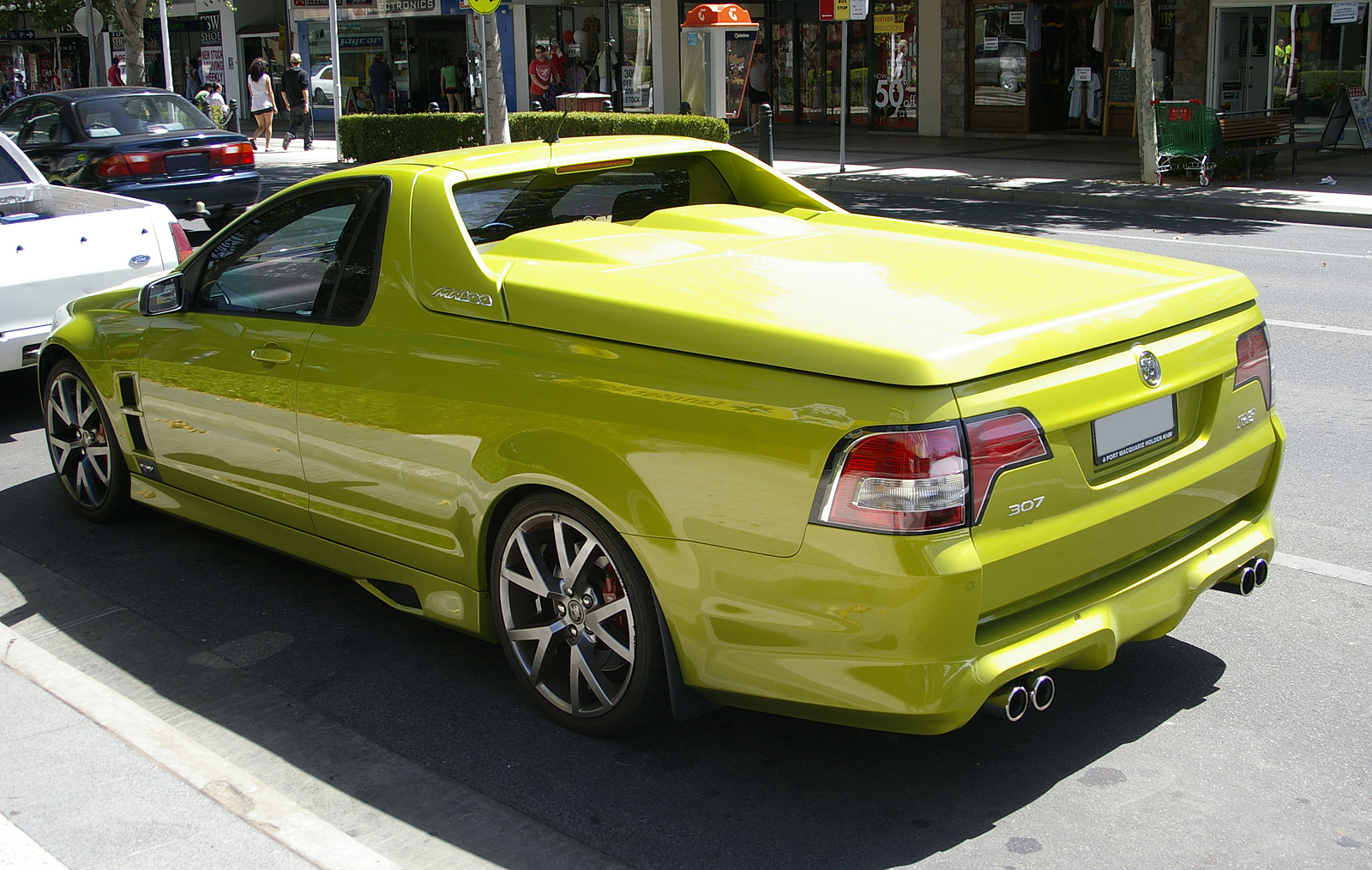 2007 HSV Maloo (E Series MY08.5) R8 utility